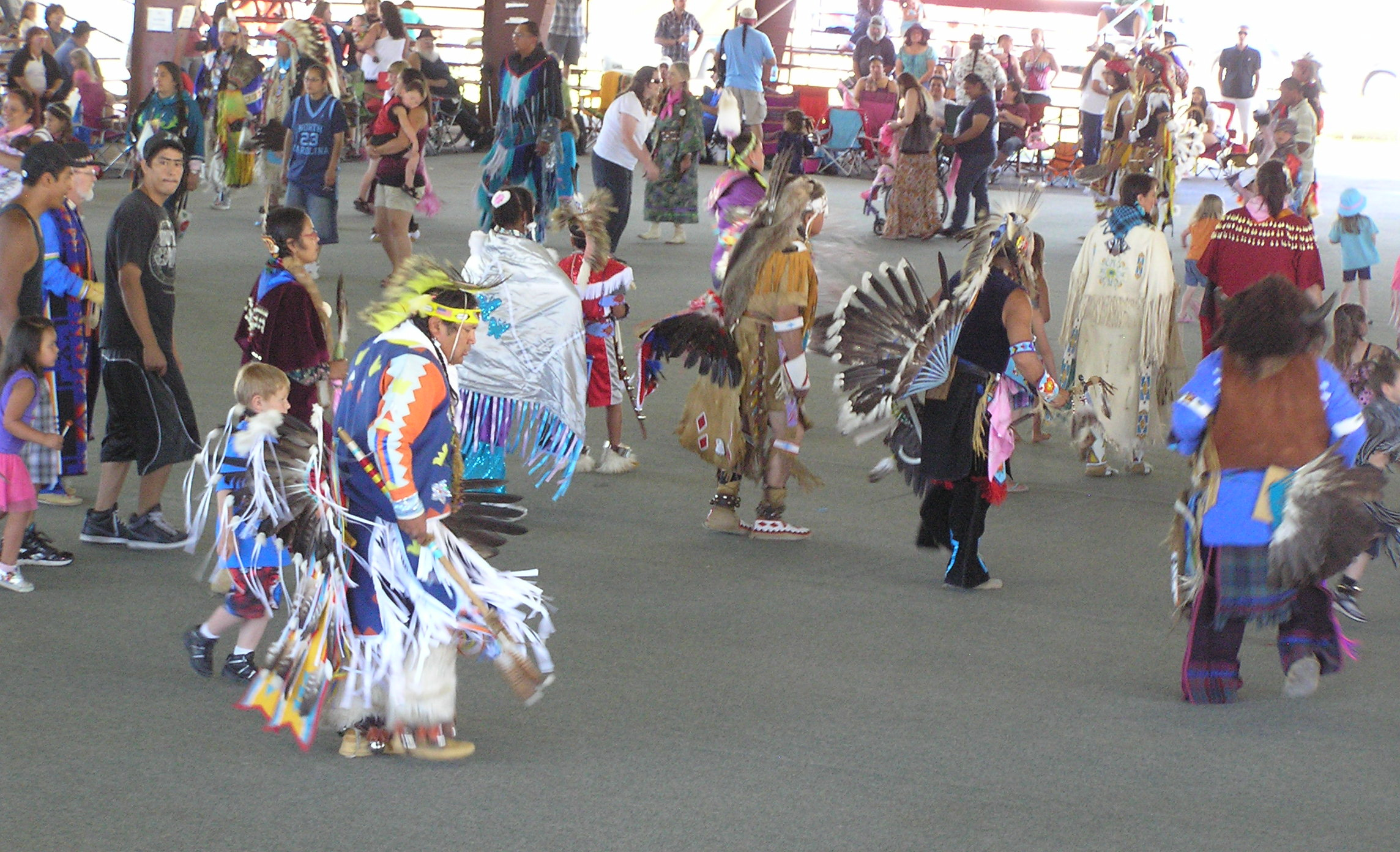 Native American Dancers at 2012 Arlee Celebration Powwow, Arlee, MT